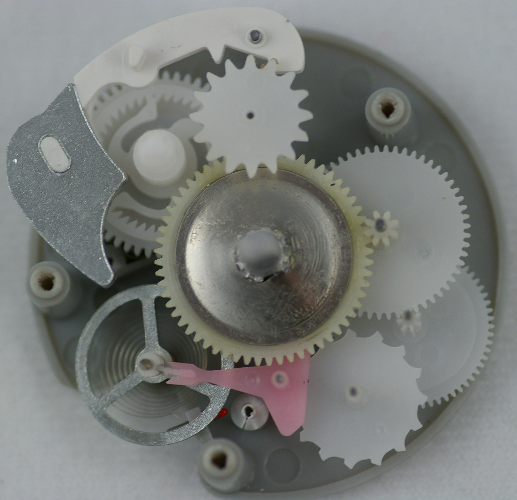 The gears from an egg timer, showing the Lever escapement and other gears.